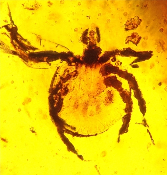 Early Cretaceous Myanmar amber larval hard tick, Cornupalpatum burmanicum